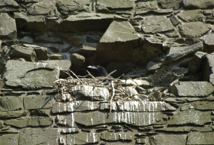 Threave Castle (Dumfries and Galloway, Scotland) - raven in the Great Hall